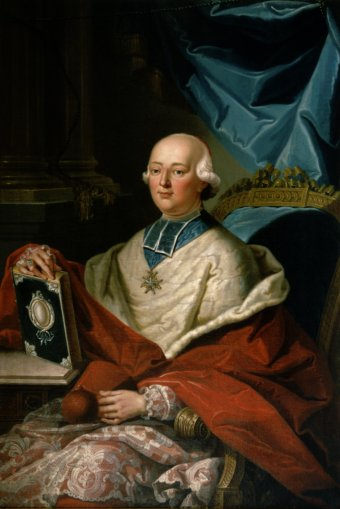 Portrait of Louis René Édouard, cardinal de Rohan (1734-1803)